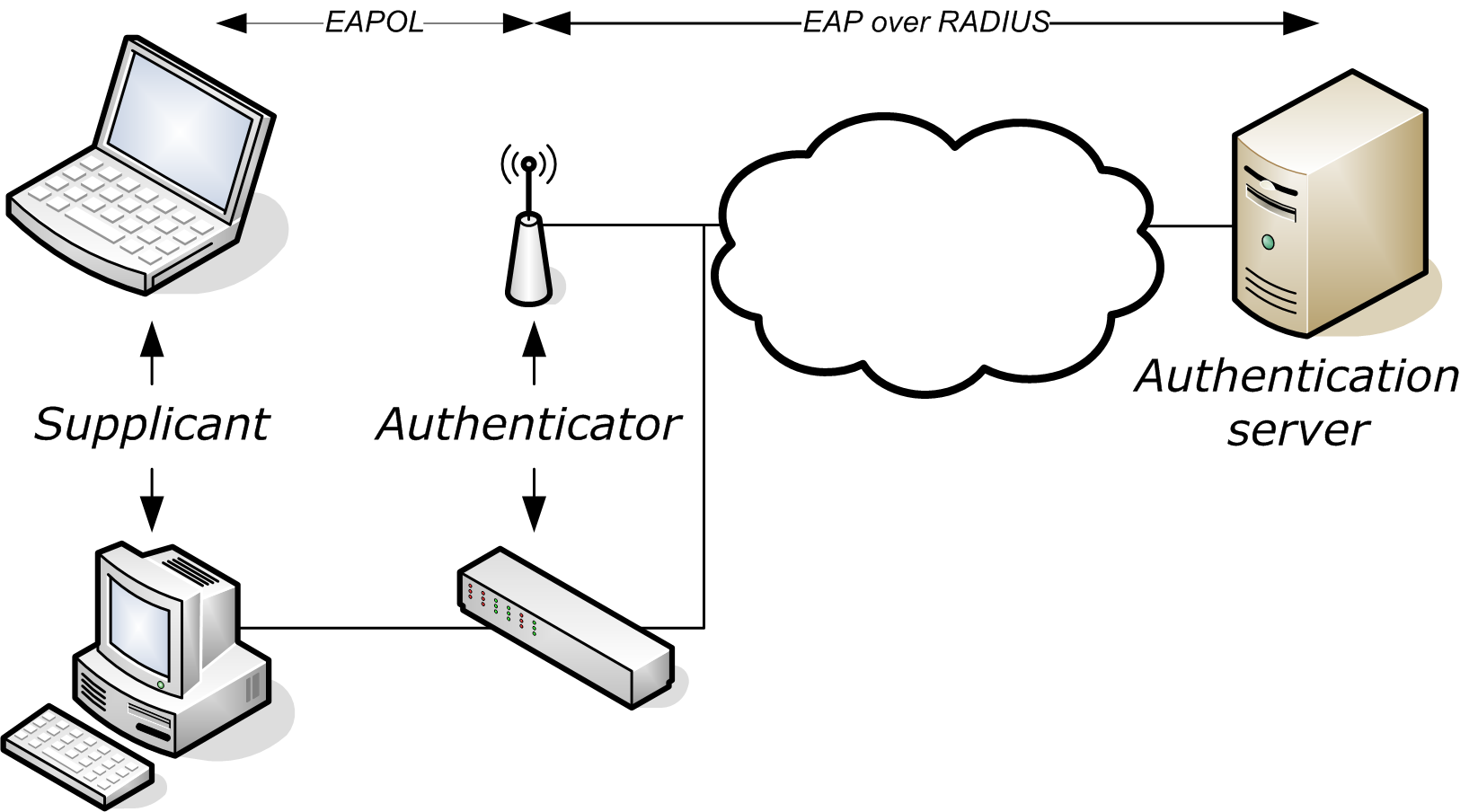 Diagram of Extensible Authentication Protocol (EAP).